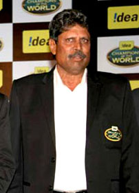 Former India Cricketer Kapil Dev at the "Idea Champions Of The World" Press Meet Cropped from the original